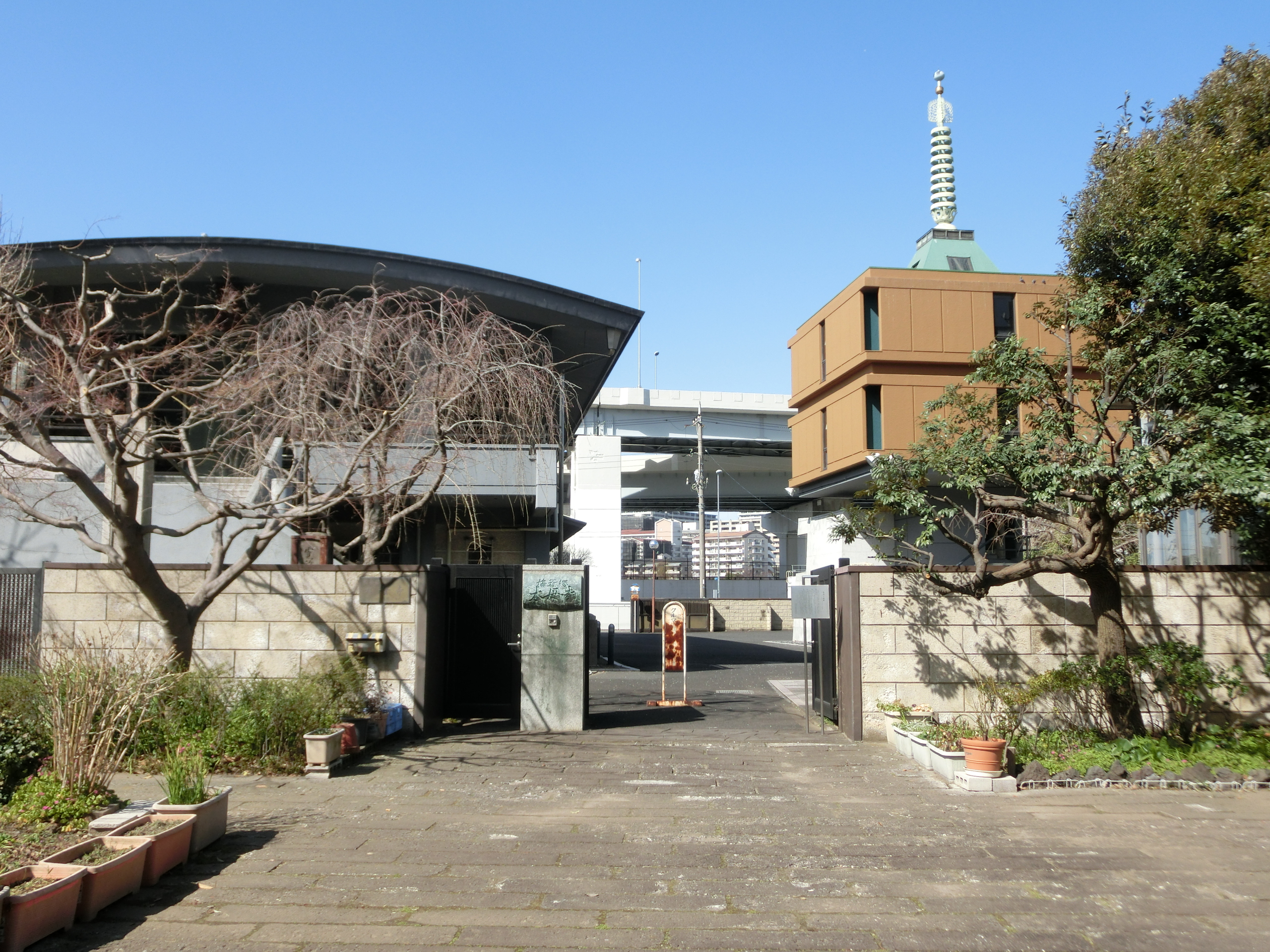 Mokubo-ji